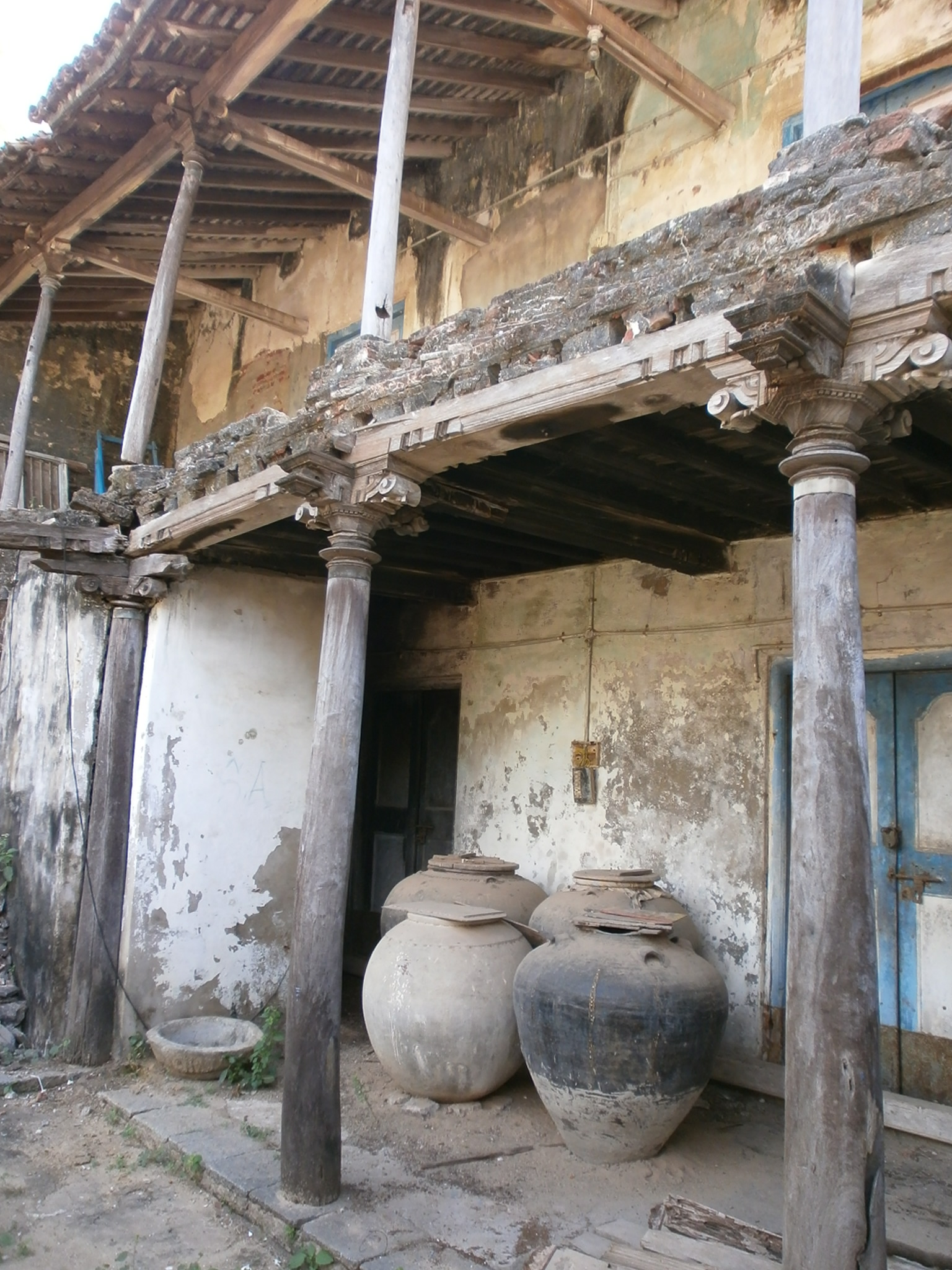 Pulicat-India-An-Old-Abandoned-Dutch-House-with-Large-Pots-6